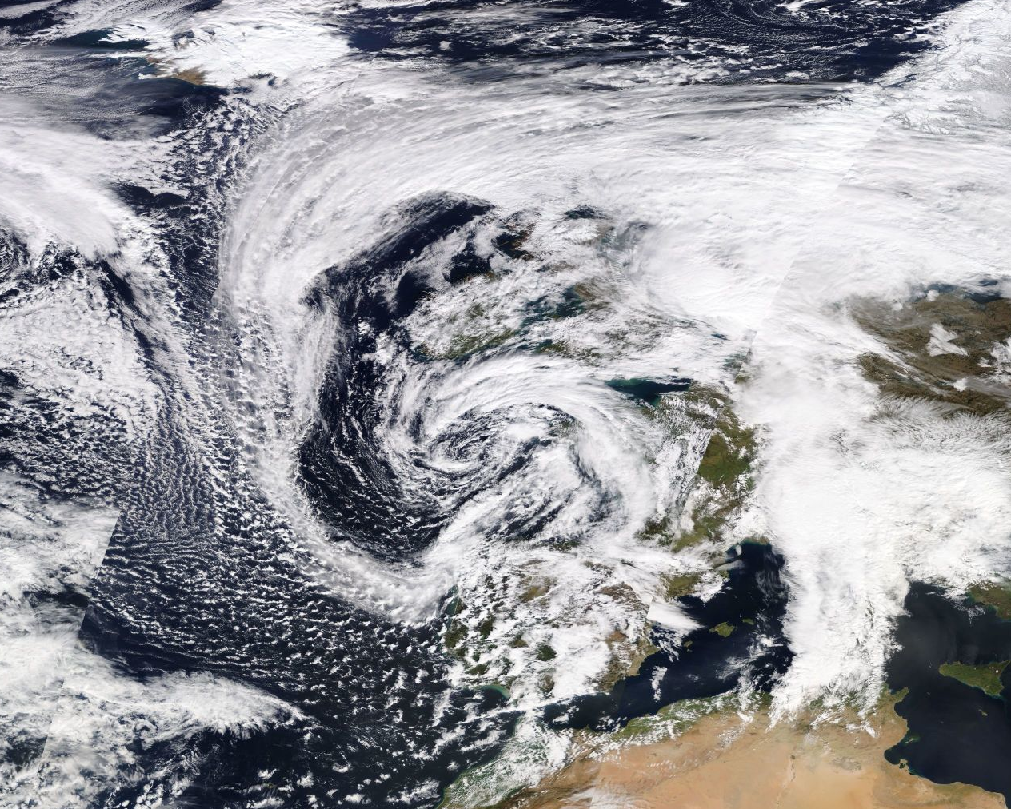 European windstorm Felix in the Bay of Biscay on 11 March